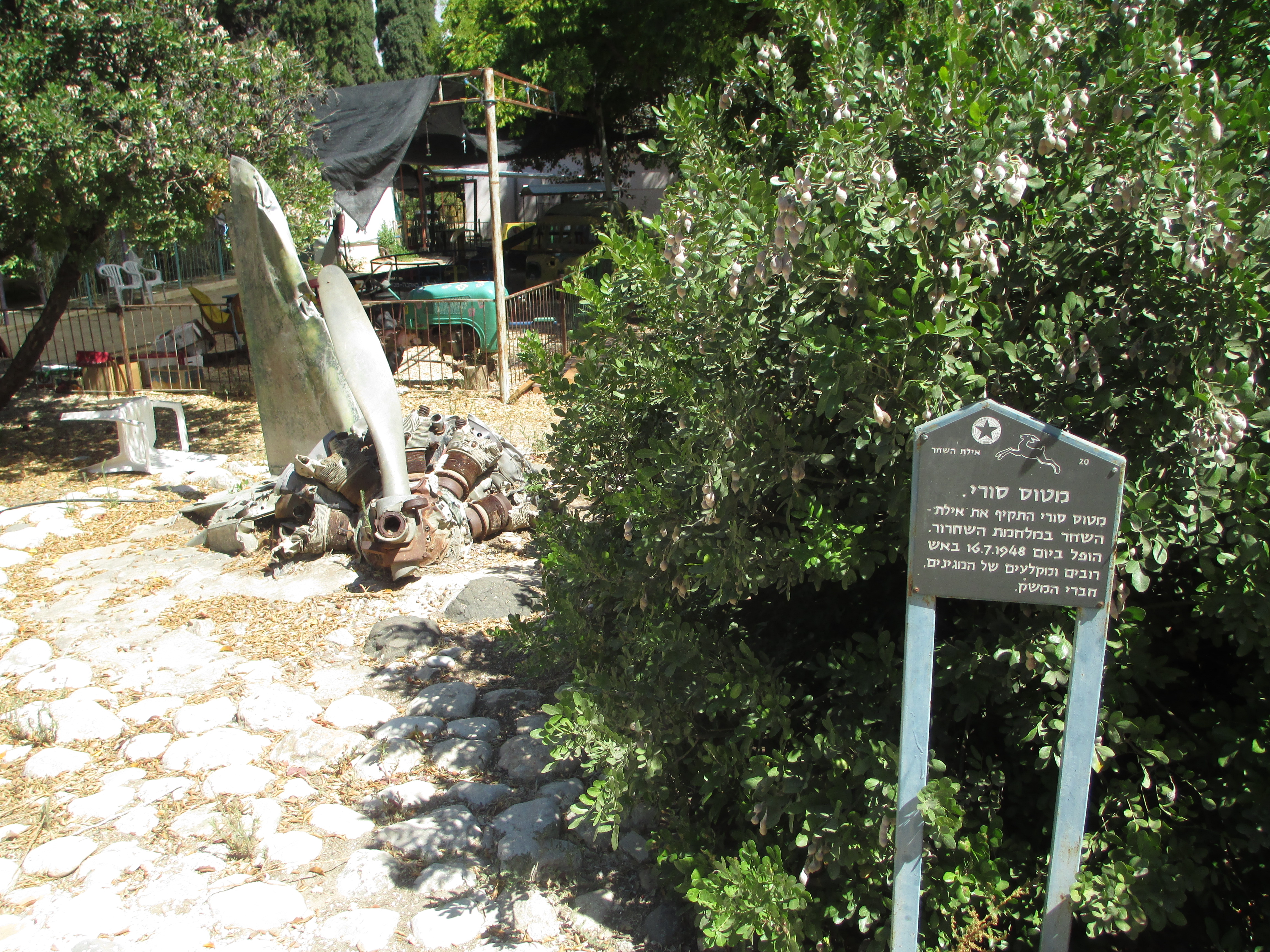 Remains of a syrian aircraft in kibbutz Ayelet Hashahar